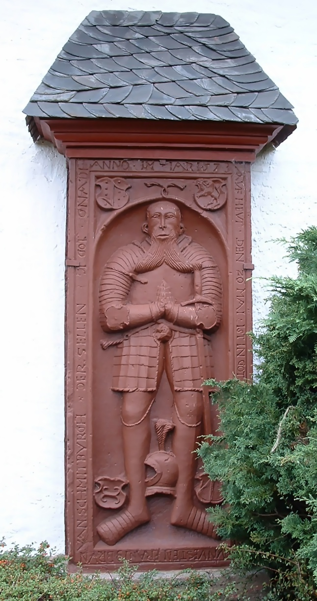 Evangelische Kirche, Oberkirn